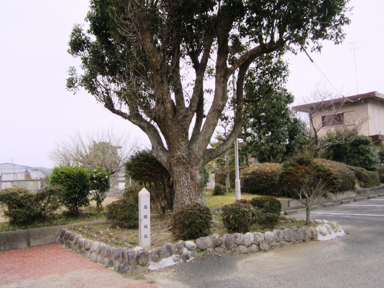 The site of Takanawa Castle in Toyohashi, Aichi.